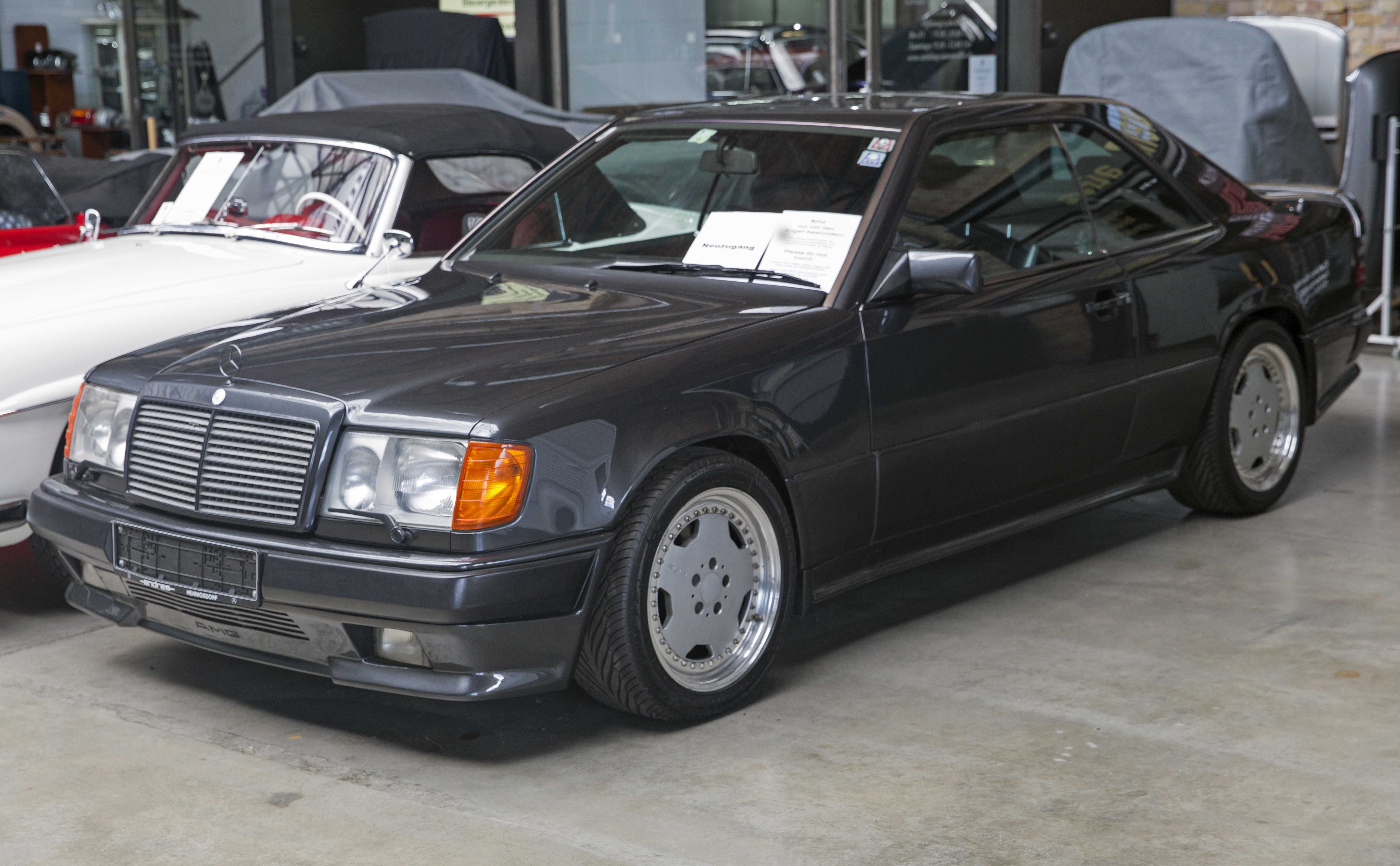 An early 1990s Mercedes-Benz AMG 3.4 CE-24 (or whatever it is called, I have seen any number of variations). No information given, beyond it being a recent arrival; this car was gone again by the next weekend. Lovely, not as overwrought as later efforts.